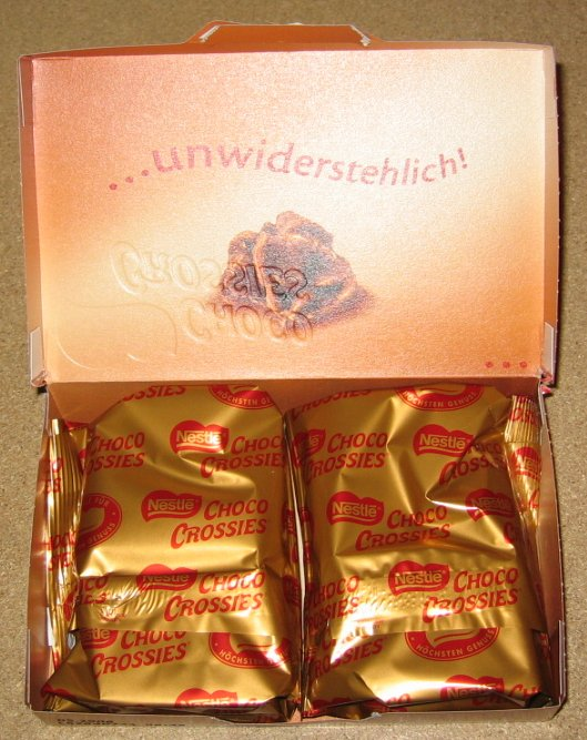 Choco Crossies open 2006